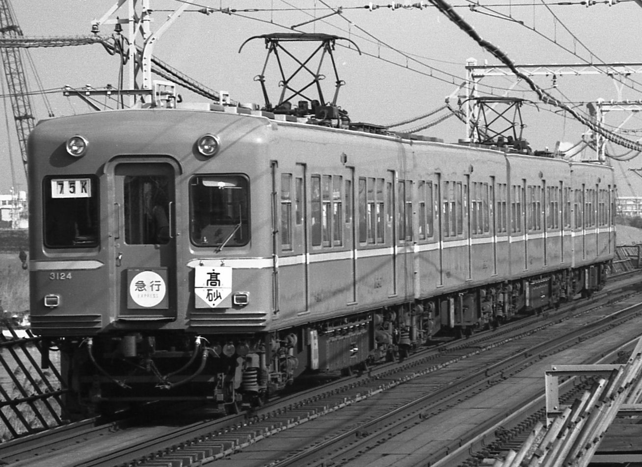 Keisei 3124 on the bridge over Arakawa